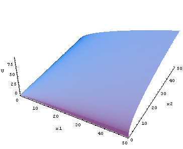 Cobb-Douglas utility function (Labor-Capital) Graph made by user:Giuseppe.Vittucci